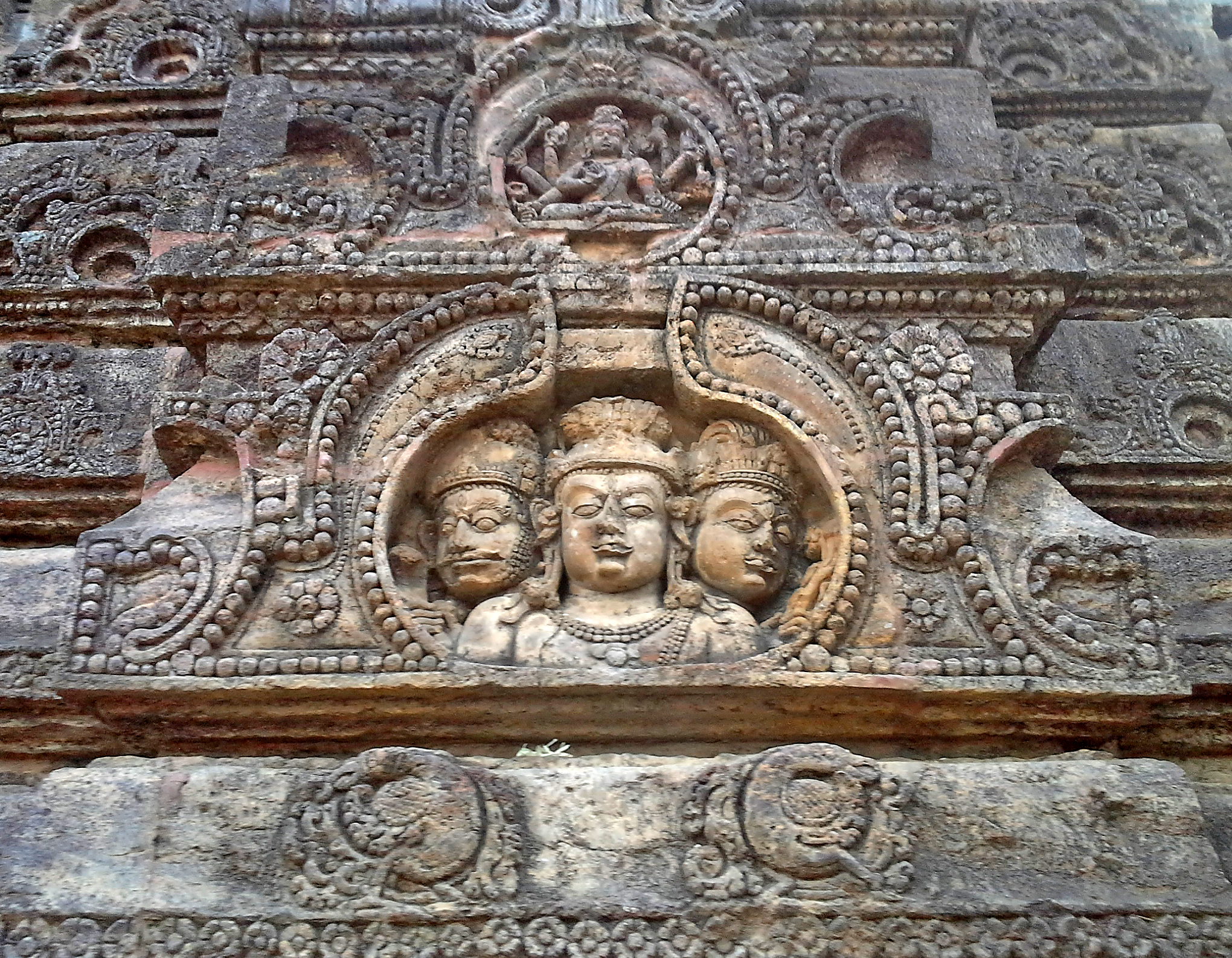 A relief of Trimurti on a dome at Sri Mukhalingam temple complex in Srikakulam district